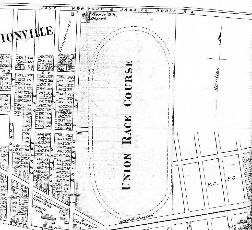 Location of Union Course racetrack on Woodhaven map of atlas, 1873.